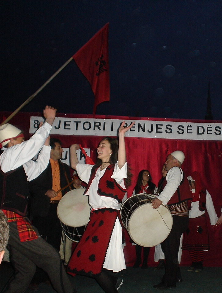 Albanian kids dancing in traditional costume